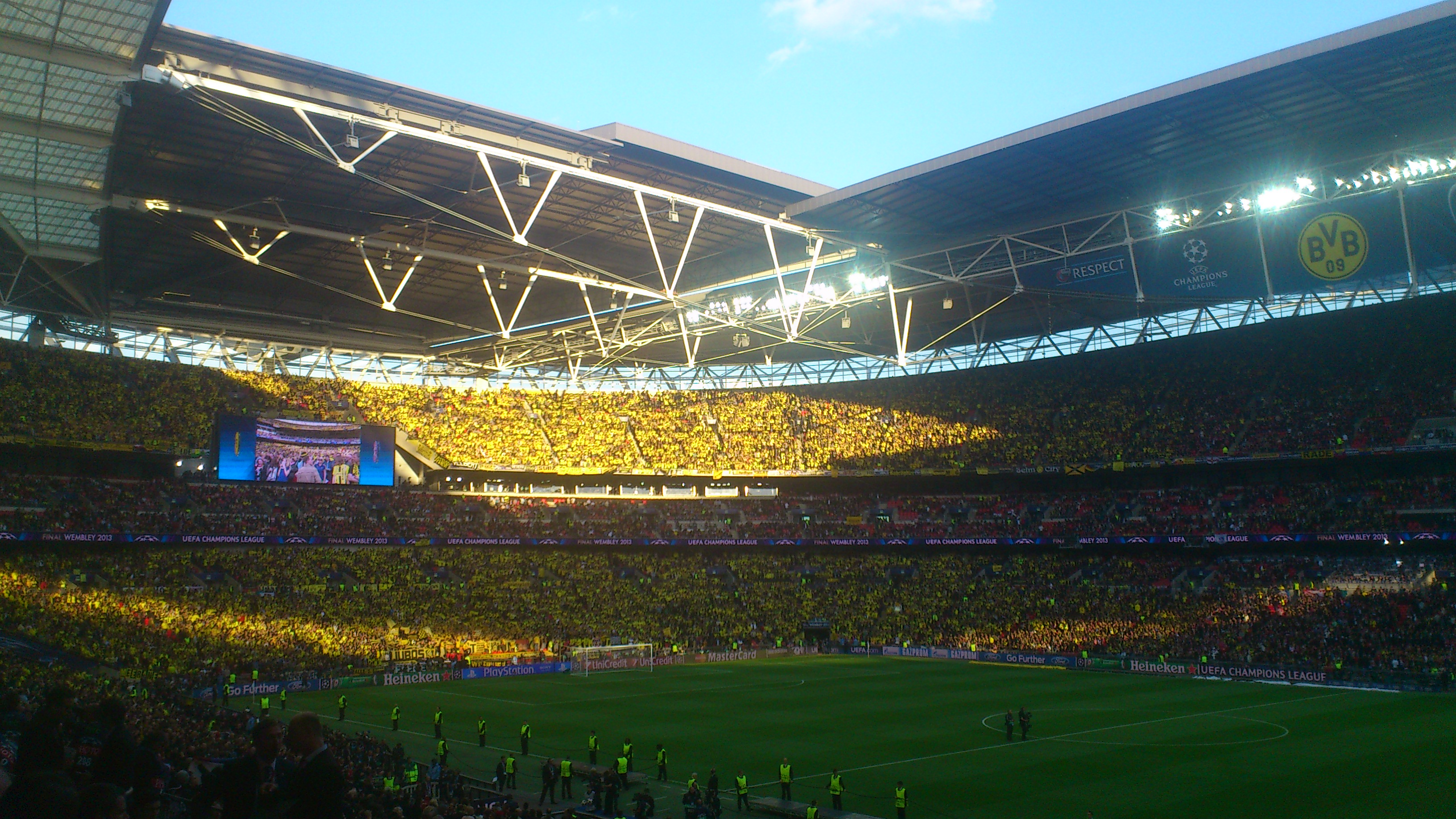 Der BVB-Sektor